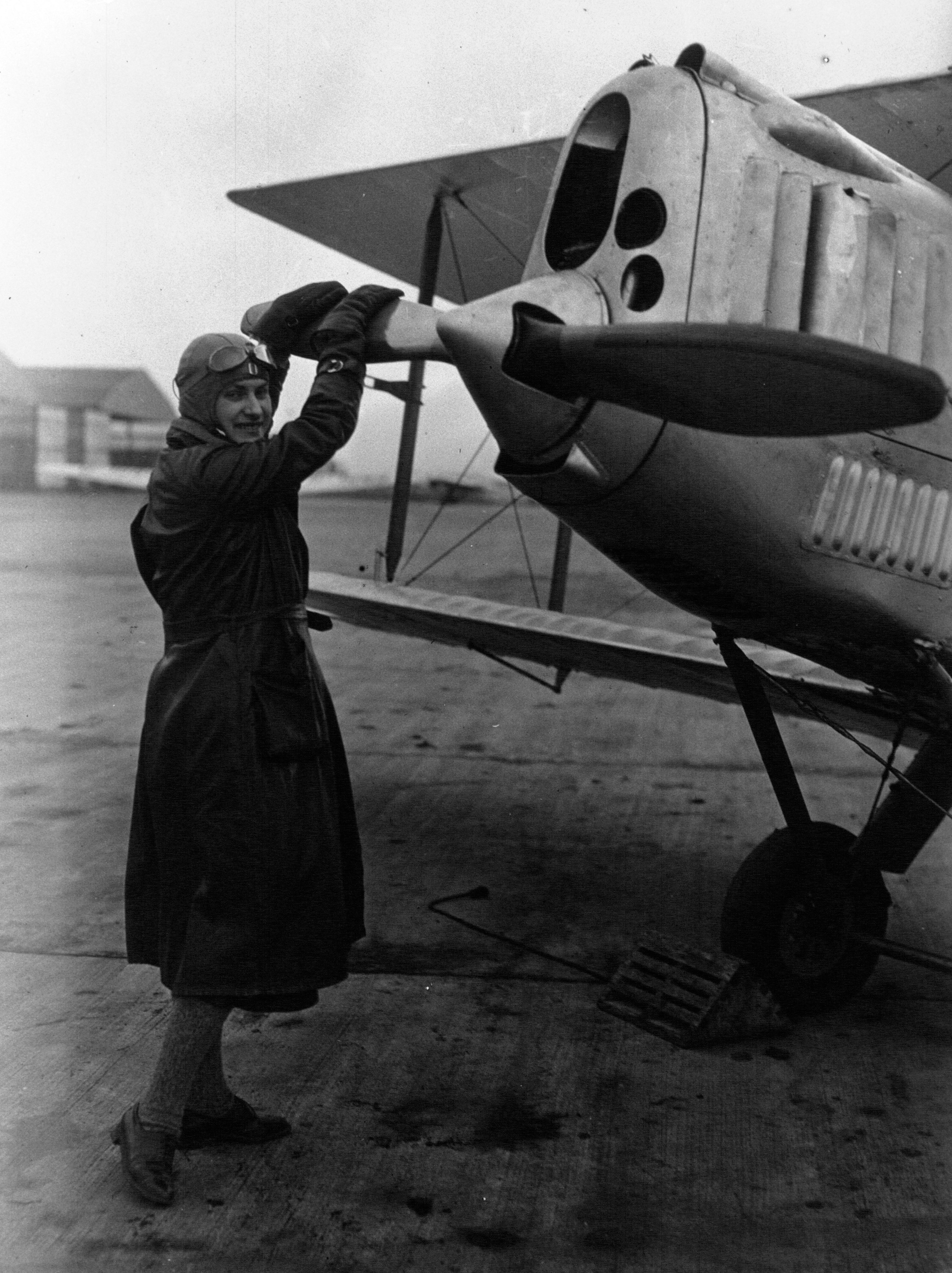 French aviator Hélène Boucher (1908-1934) at Le Bourget in 1933.